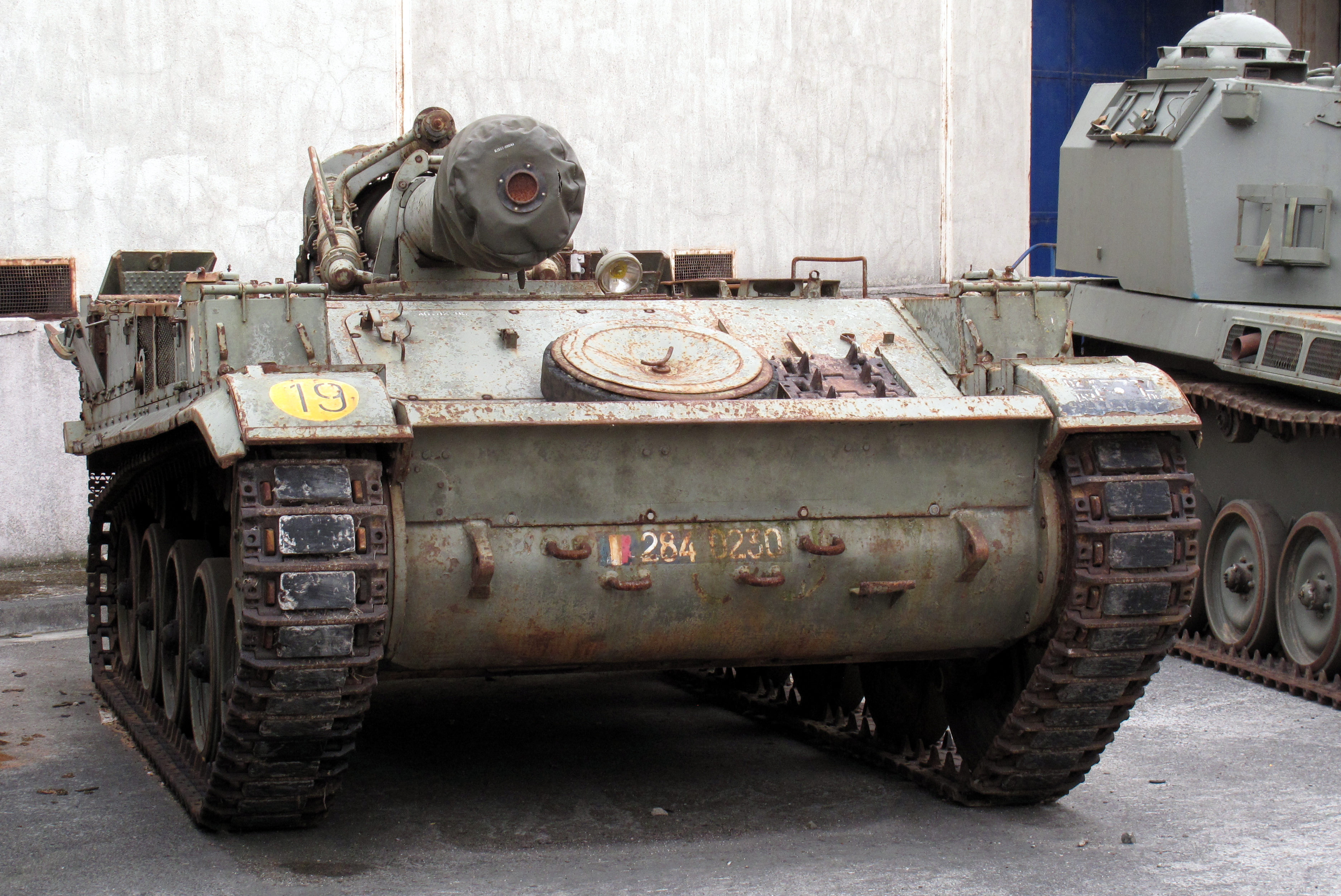 AMX-13 or variant. On display at Saumur Général Estienne museum.